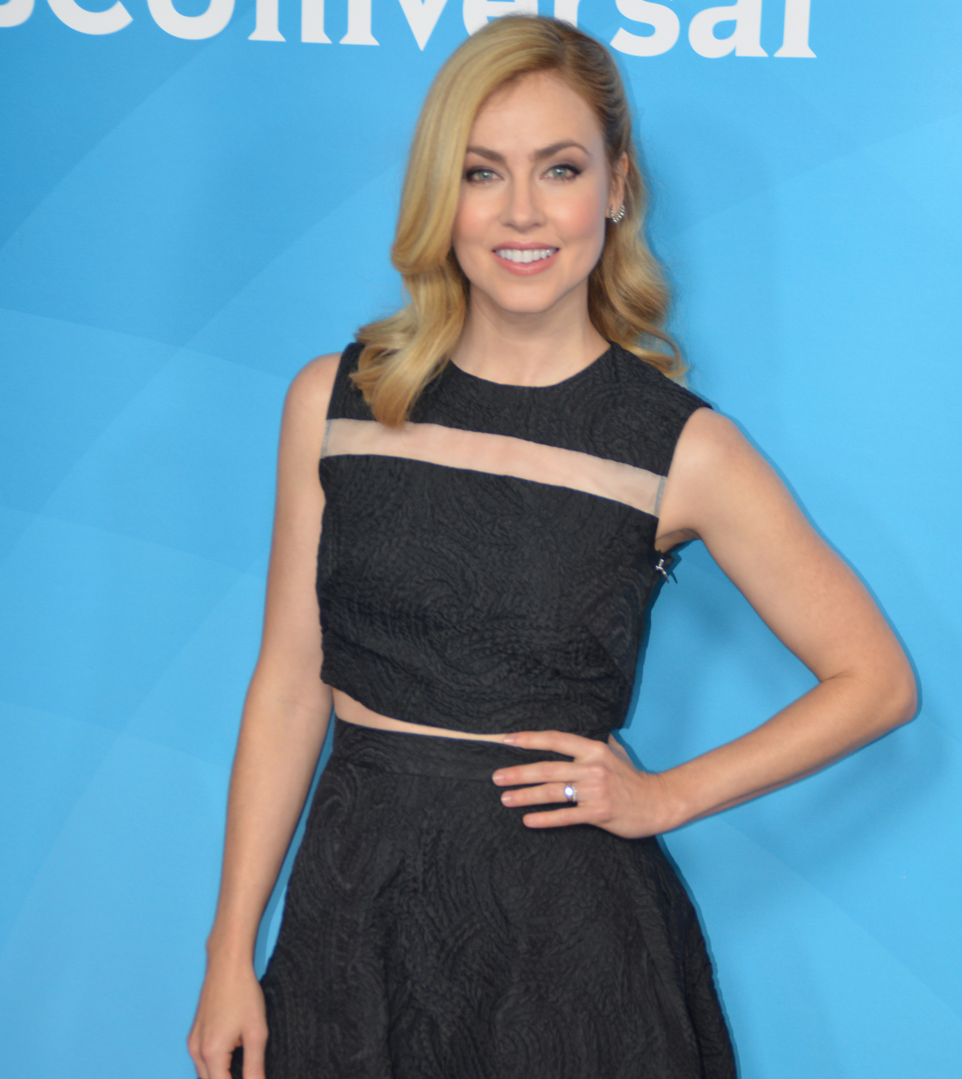 Amanda Schull at the 2015 Television Critics Association’s Press Tour (TCA2015) for the NBC Universal TV show announcements, interviews with cast and creators at The Langham Huntington Hotel in Pasadena, CA.